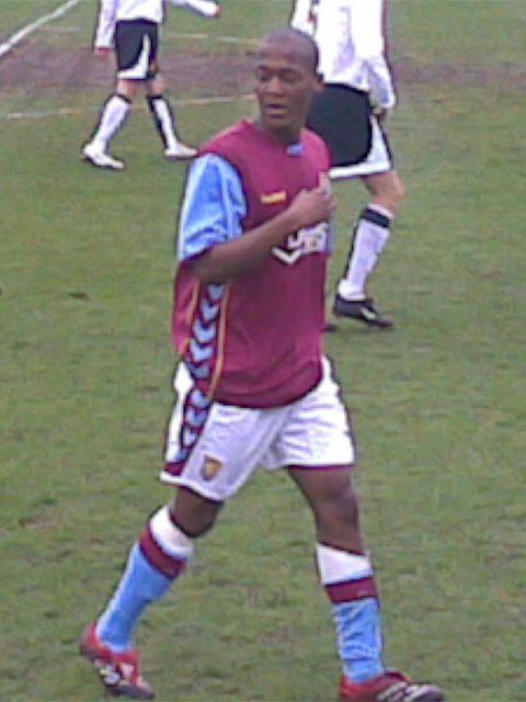 Picture was taken by myself at Aston Villa (Reserves) Vs. Manchester United (Reserves).